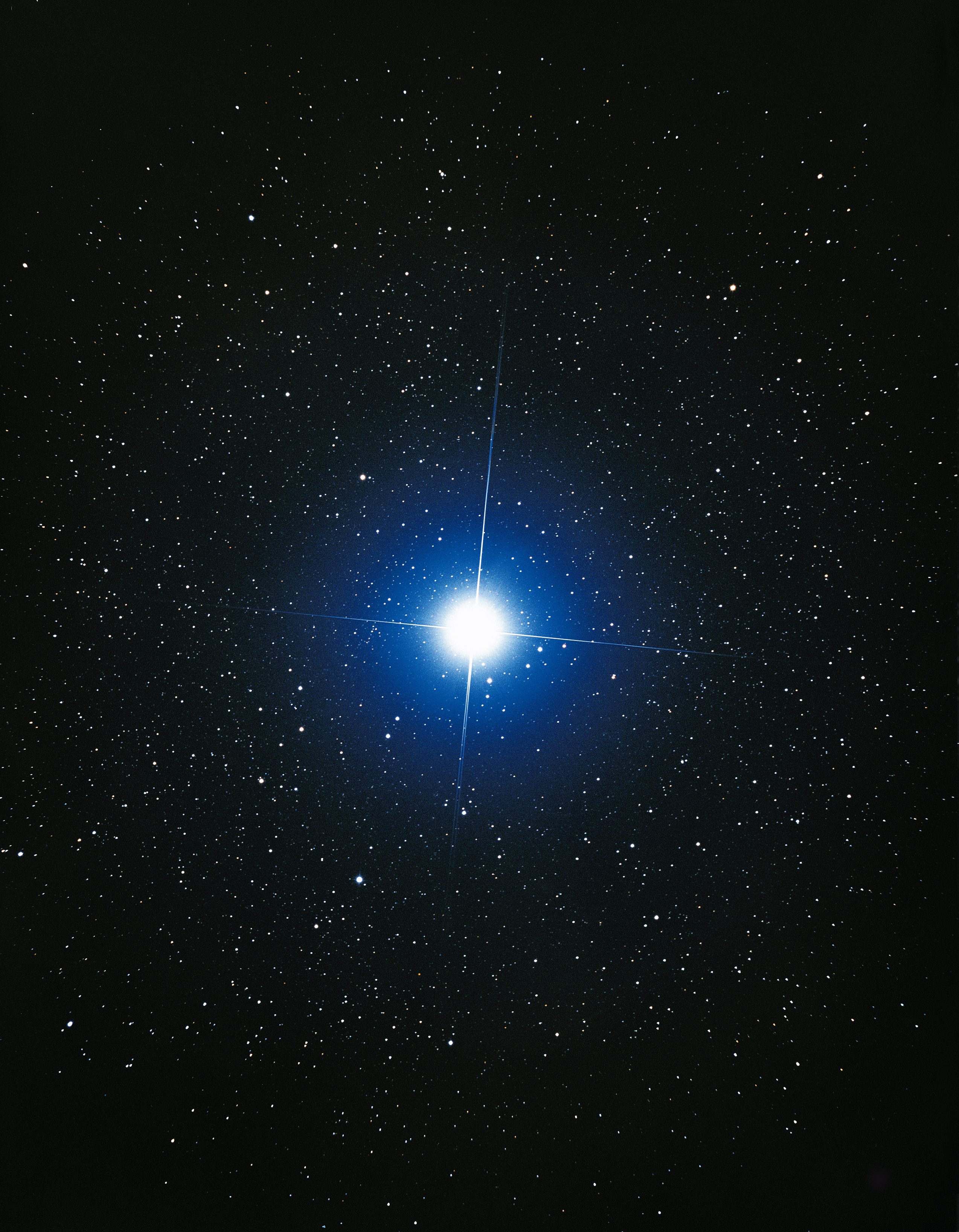 This ground-based image was taken by Japanese amateur astronomer Akira Fujii and shows a close-up of Sirius